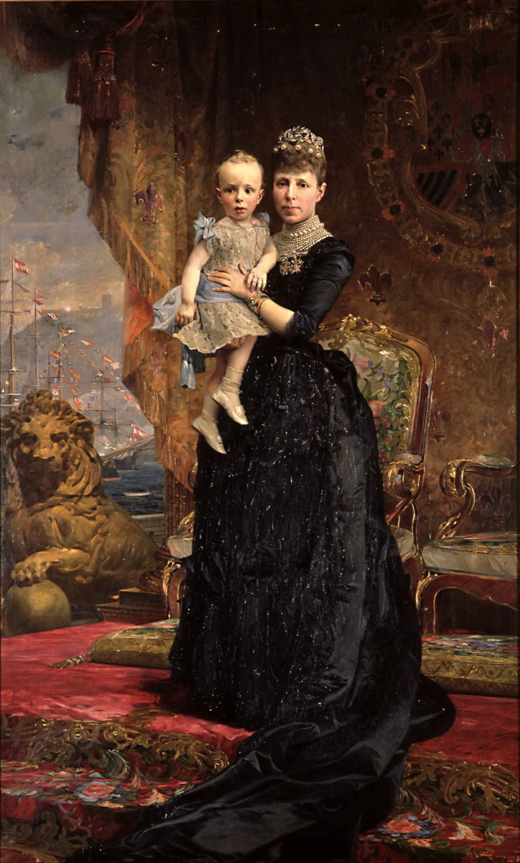 Portrait of Queen Maria Cristina of Spain (born an archduchess of Austria) and her son the future Alfonso XIII (1890), oil on canvas, 251 x 153 cm (inv. 244)